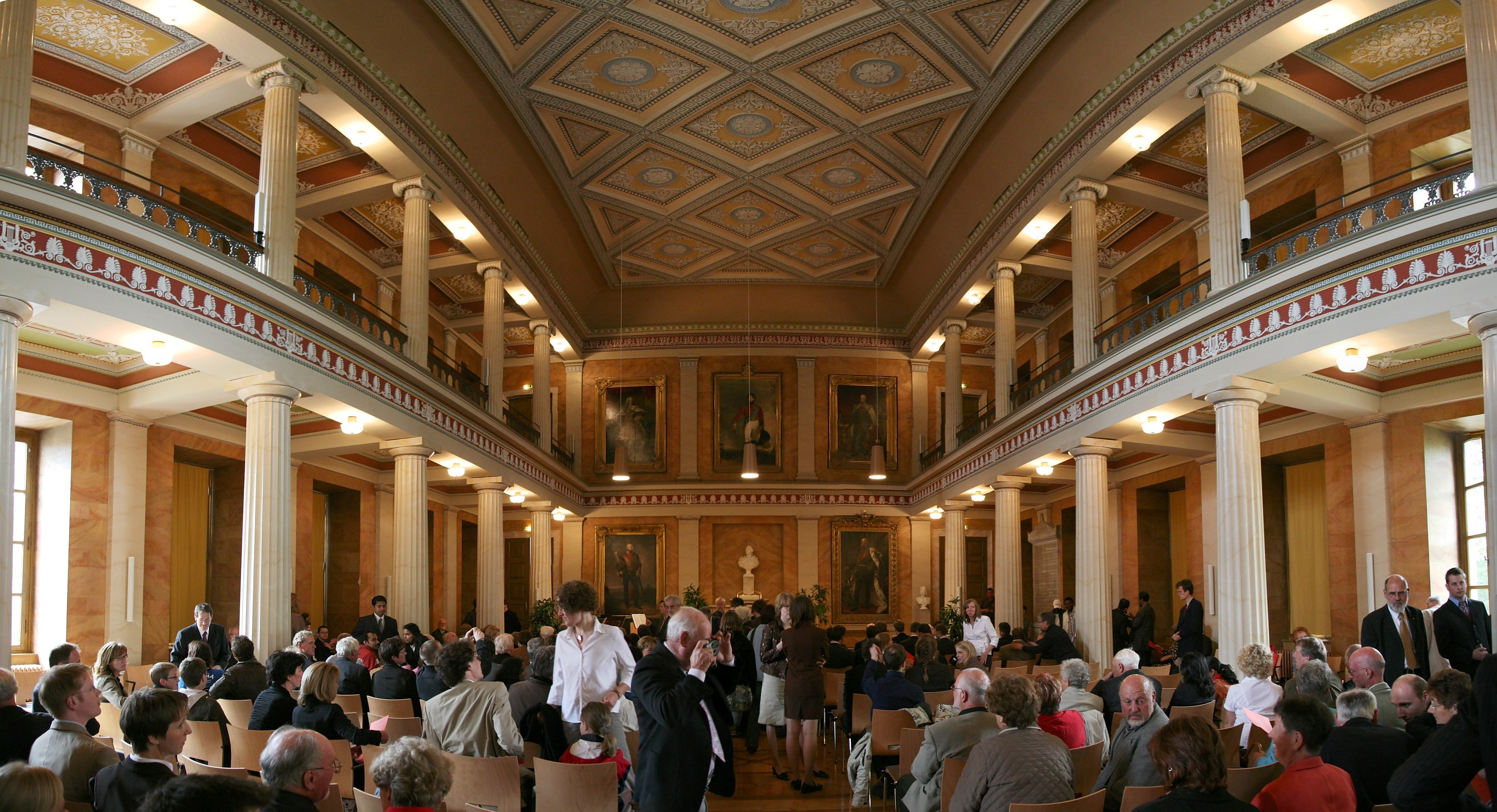 Great hall of the University of Göttingen